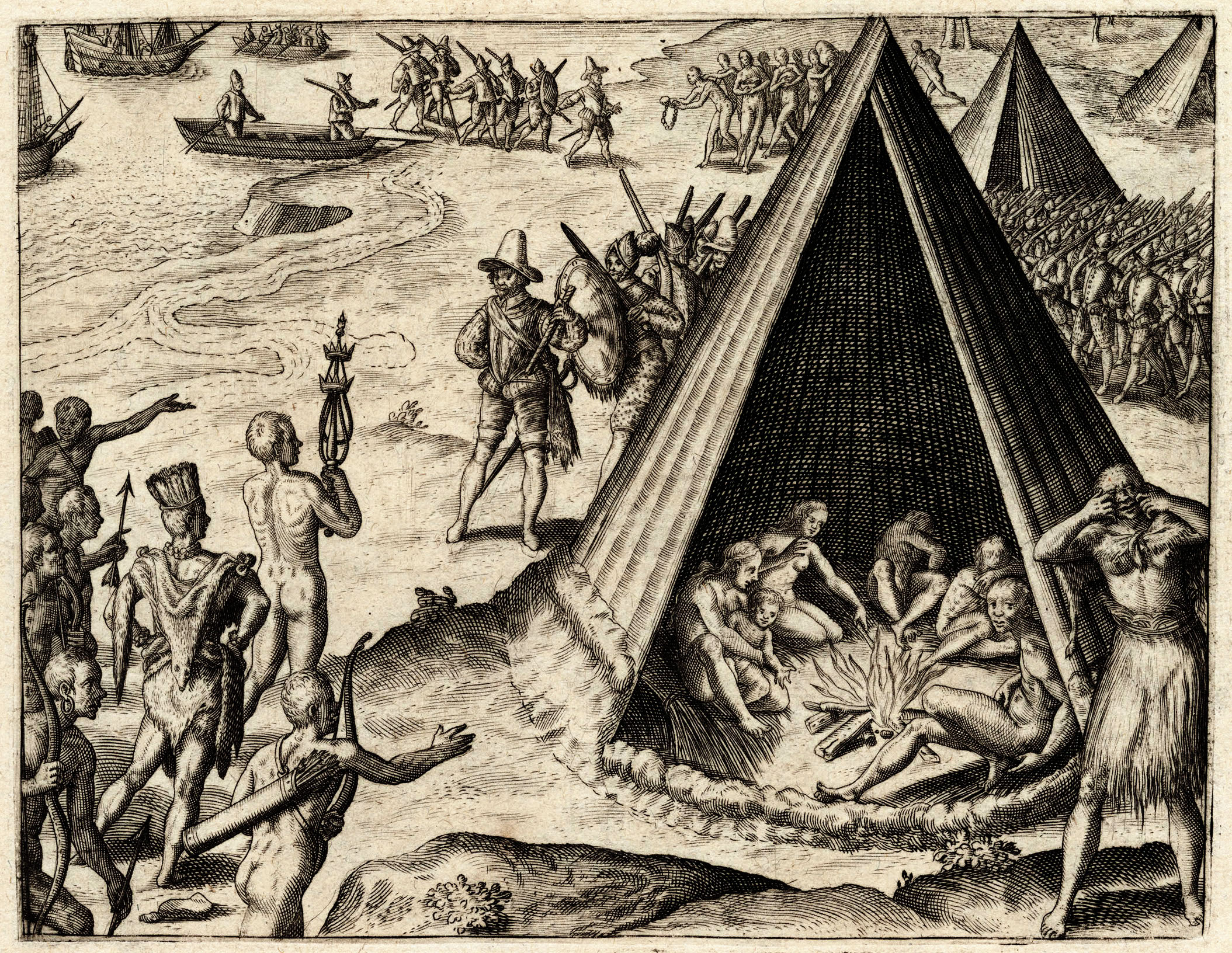 Franciscvs Draco CVM [xfE136 B79 v.8 p. 62] Francis Drake in California, 1579